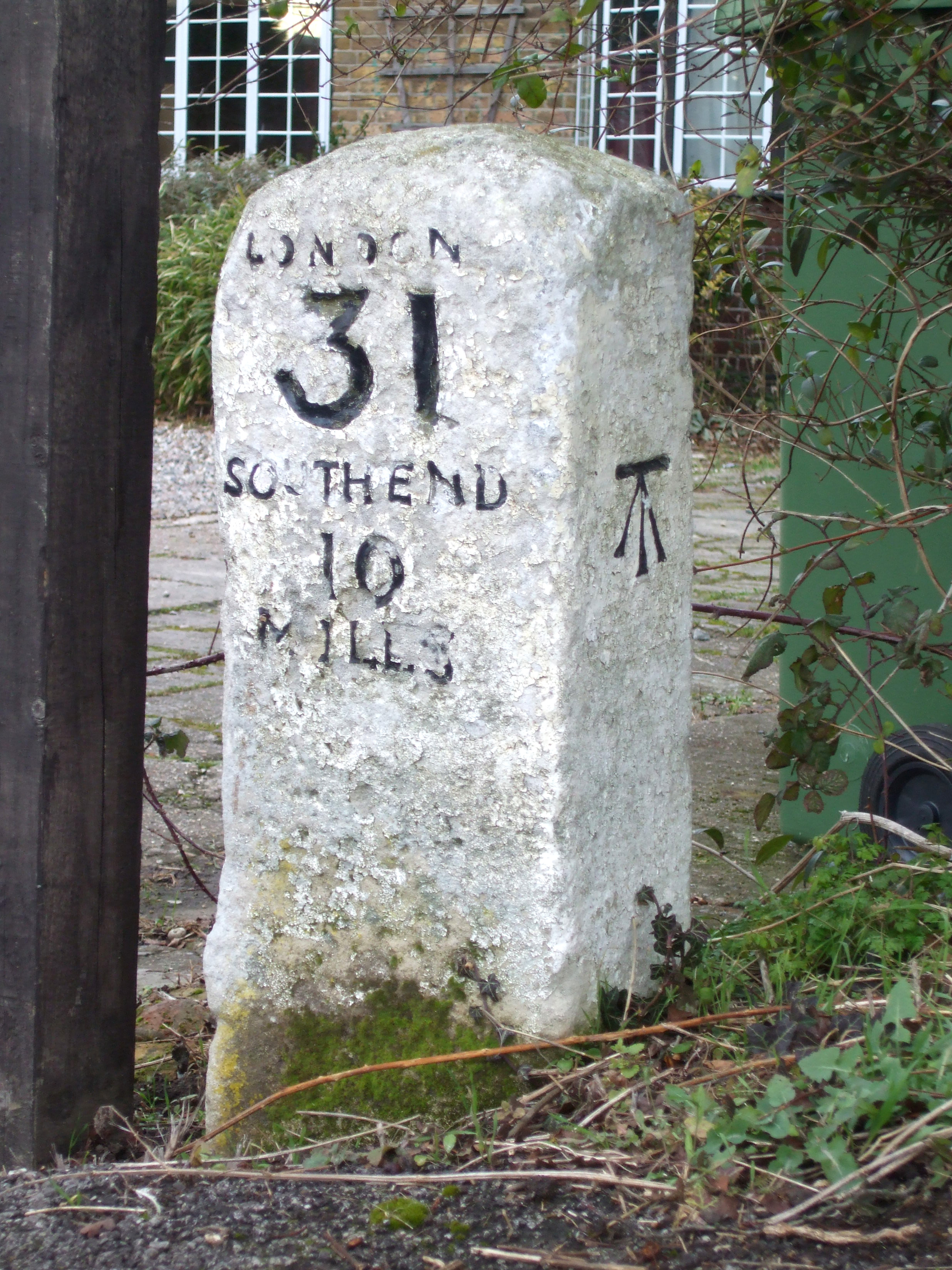 Milestone in Rawreth, Essex, England